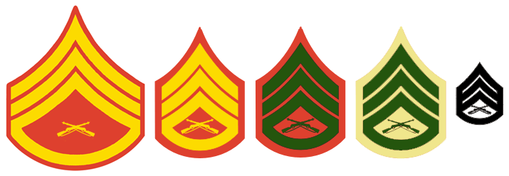 the four different varieties of United States Marine Corps enlisted rank insignia. From left to right: Dress uniform, Service Alpha coat, Service shirt, and utility pin-on.